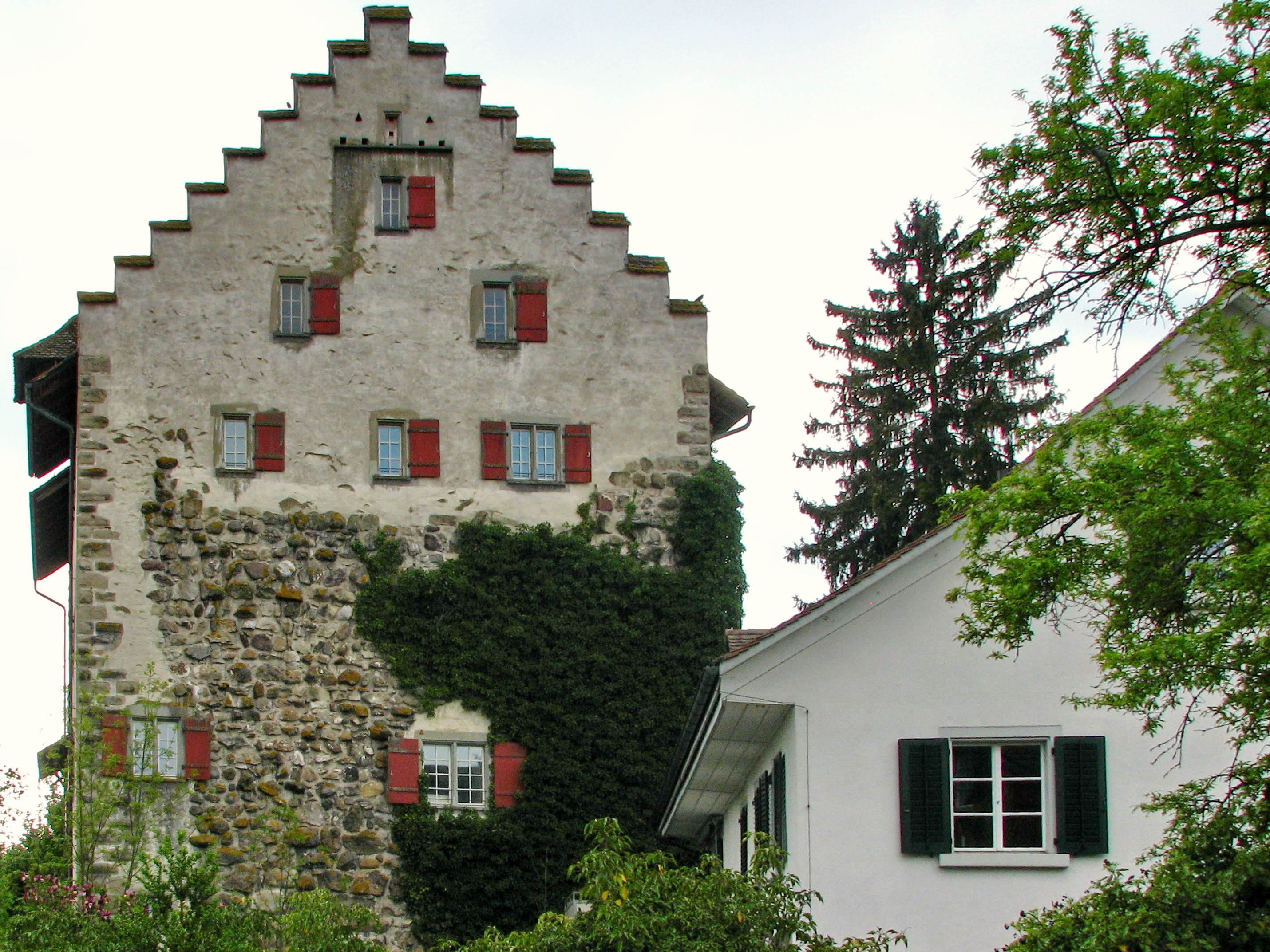 Greifensee (ZH) : Greifensee castle